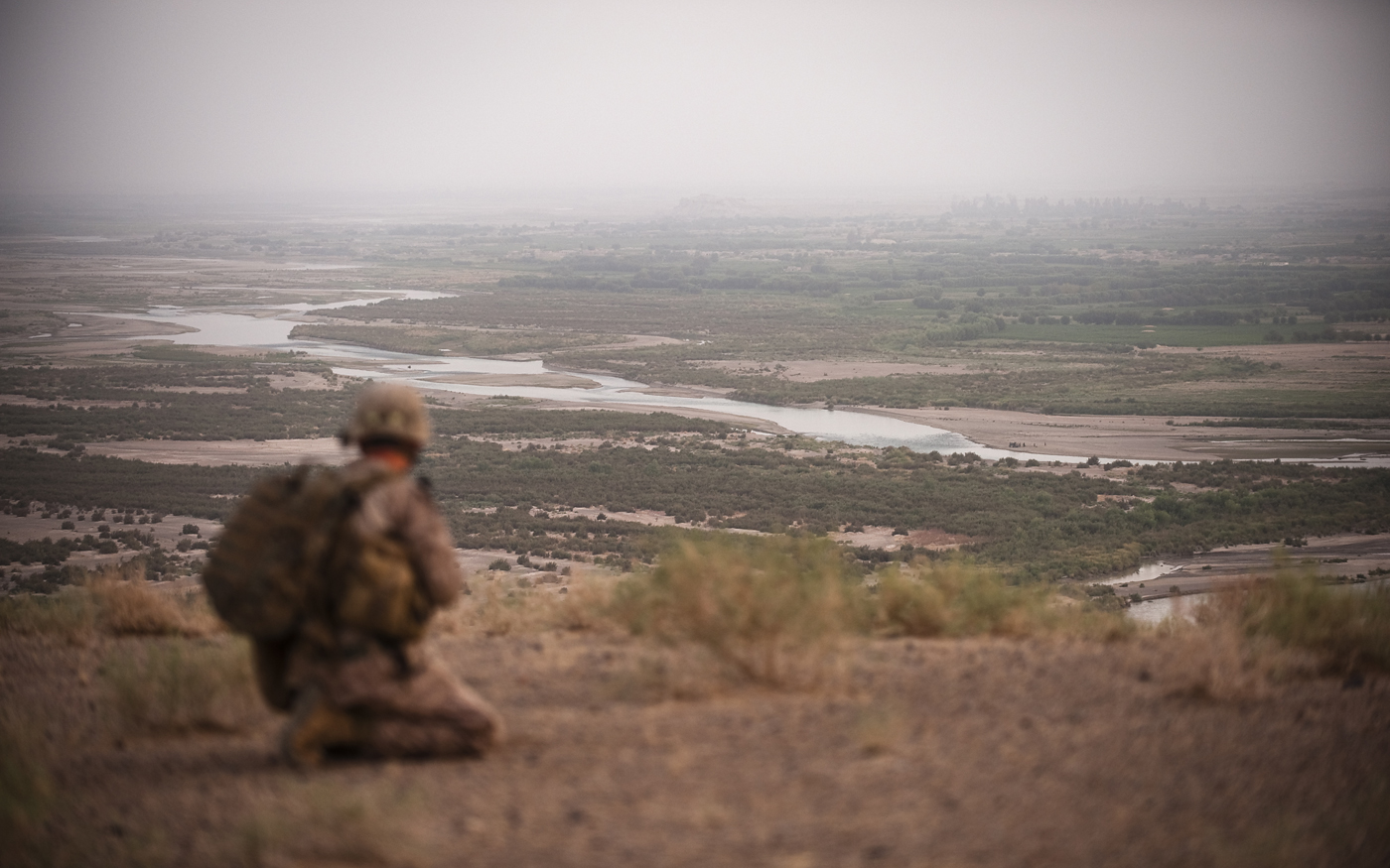 Marines from 3rd Battalion 3rd Marines overlooking the Helmand River in Nawa District, Afghanistan.